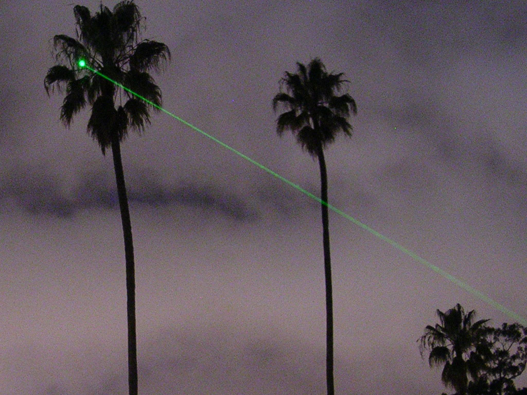 A 5 mW 532 nm laser (class IIIb) directed at a palm tree approximately 30 m away. The laser was offset by about 10 cm to the camera's right. Both the camera and laser were mechanically steadied. Photo cropped only.